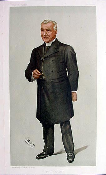 Caricature of Canon Fleming. Caption read "Chester Square". Brief biography read "Born 1830 at Strabone. Educated Cambridge. Ordained at 23".